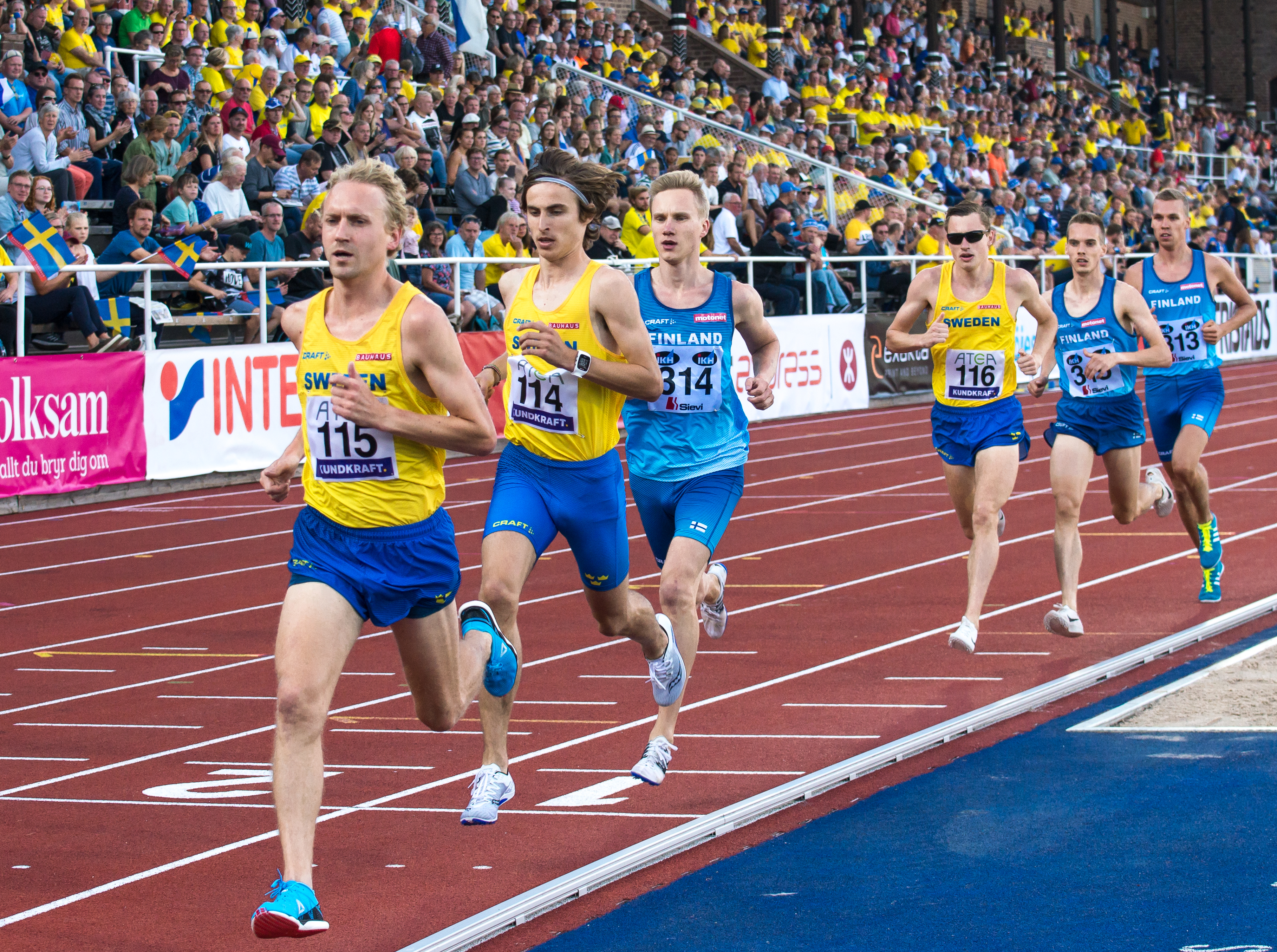 5000 metres during the Finland-Sweden athletics international 2019 at the Stockholm Stadium in August 2019. Kalle Berglund (116), David Nilsson (115), Simon Sundström (114), Miika Tenhunen (315), Hannu Granberg (314), Martti Siikaluoma (313). Berglund winner.